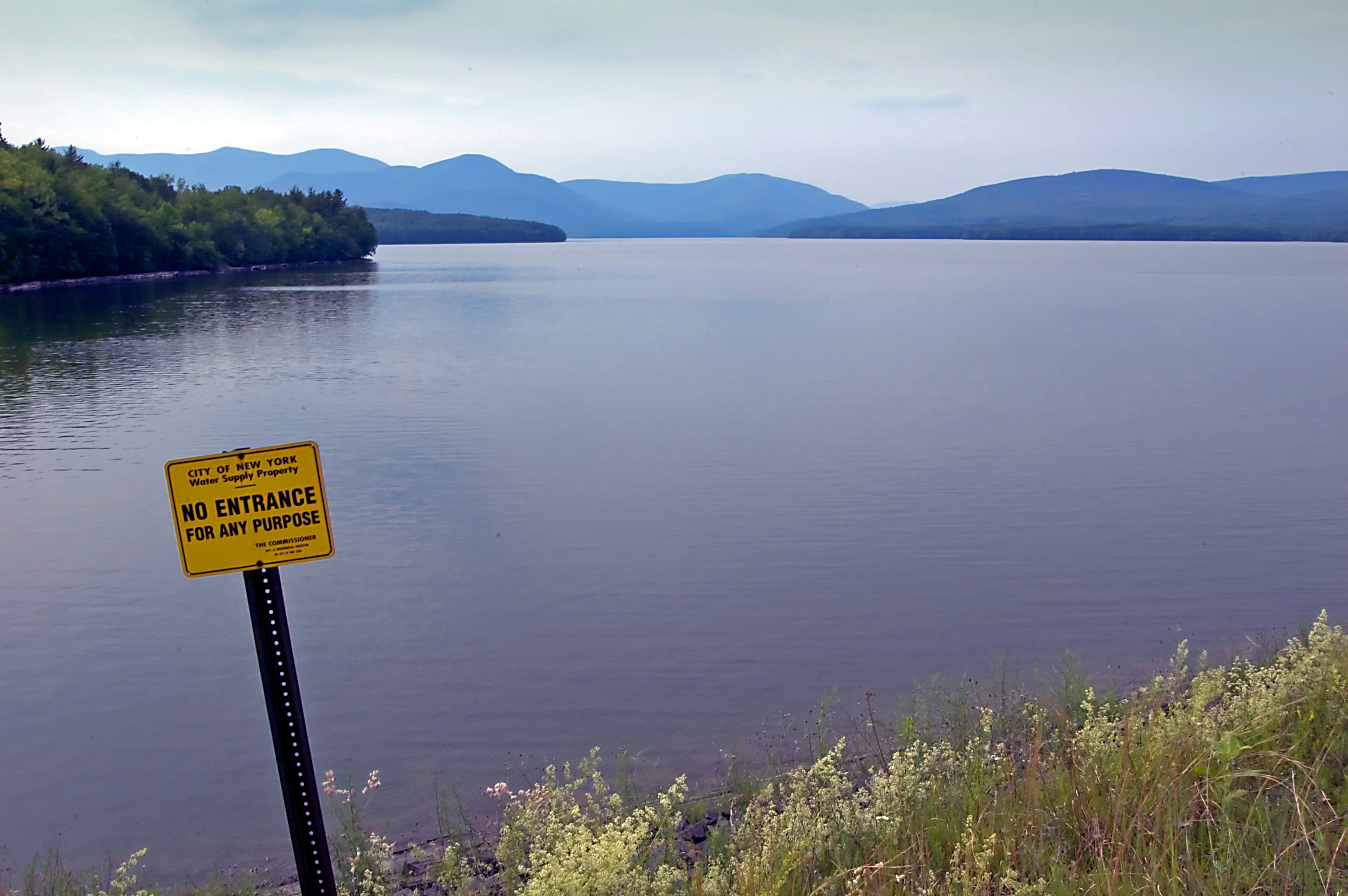 The main water supply for New York, with according prohibitions. I can't express how tempted I was to edit the Phoenix logo from the end of X-Men 2 onto the surface here. :)